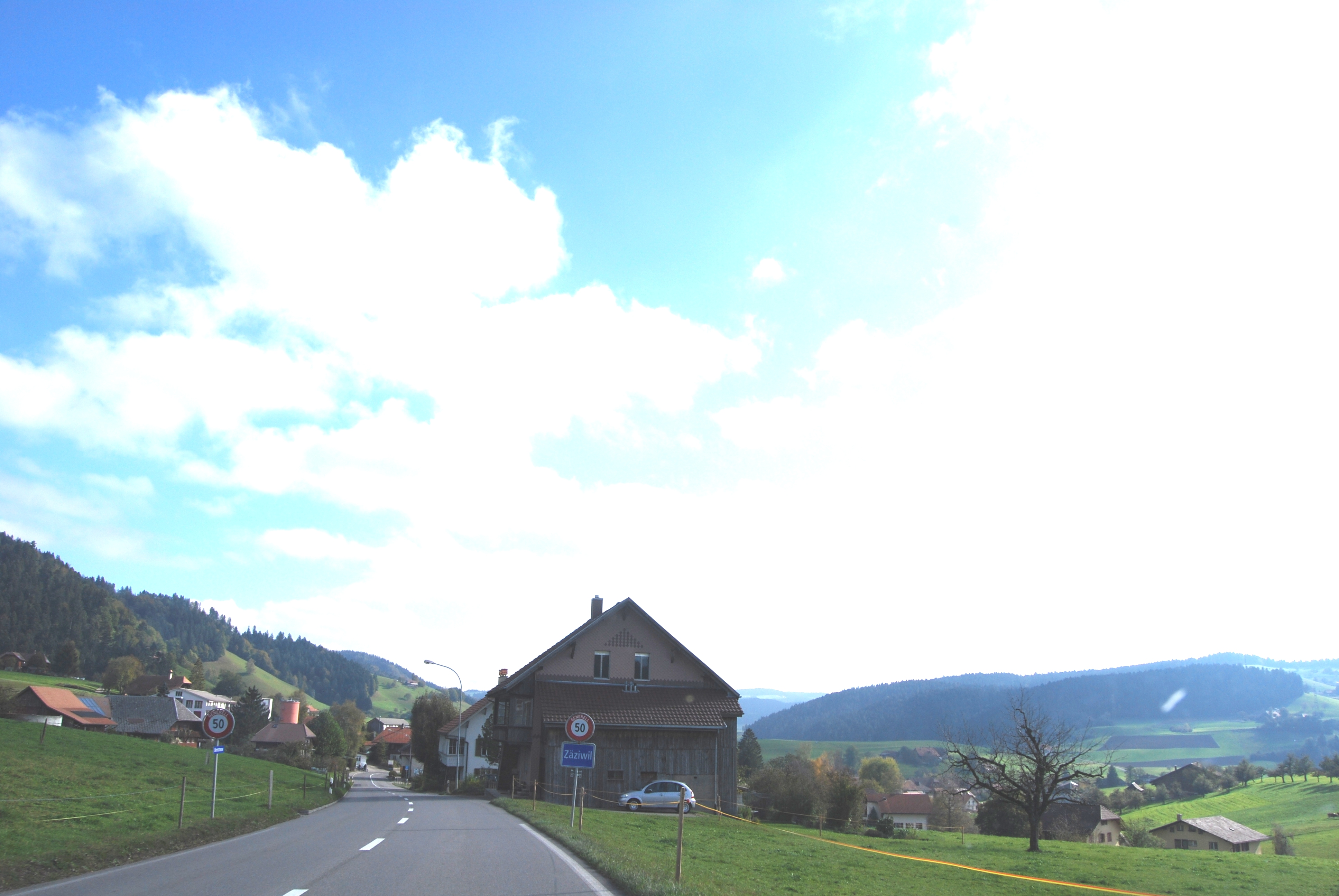 Zäziwil, canton of Bern, SwitzerlandEsperanto: Zäziwil, Kantono Berno, Svislando